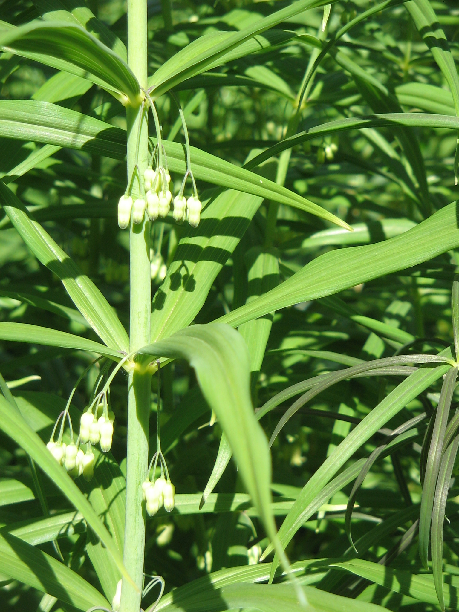 Polygonatum verticillatum 'Giant One'